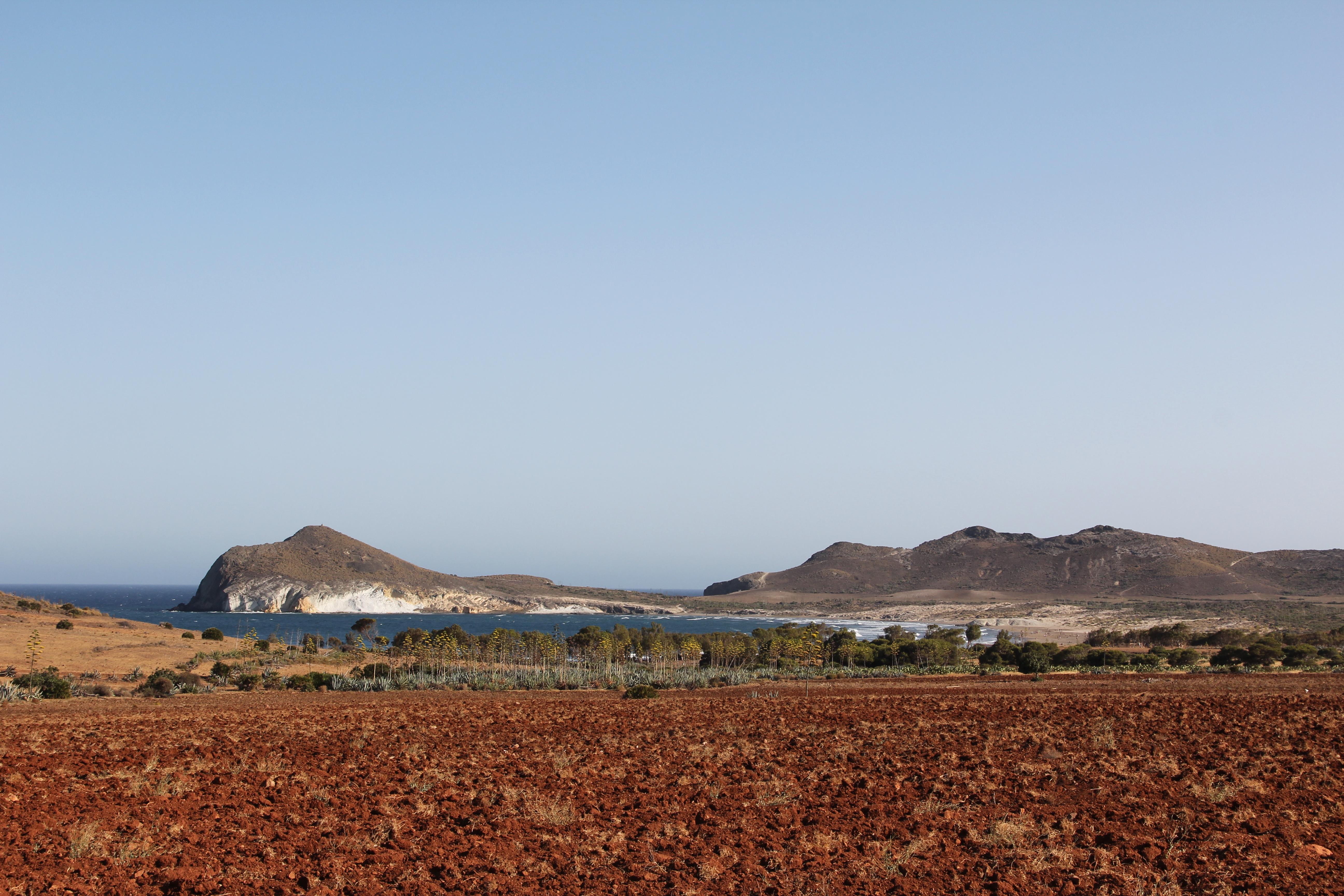 This is a photography of a Special Area of Conservation in Spain with the ID: ES0000046. Natura2000 entry, EEA entry